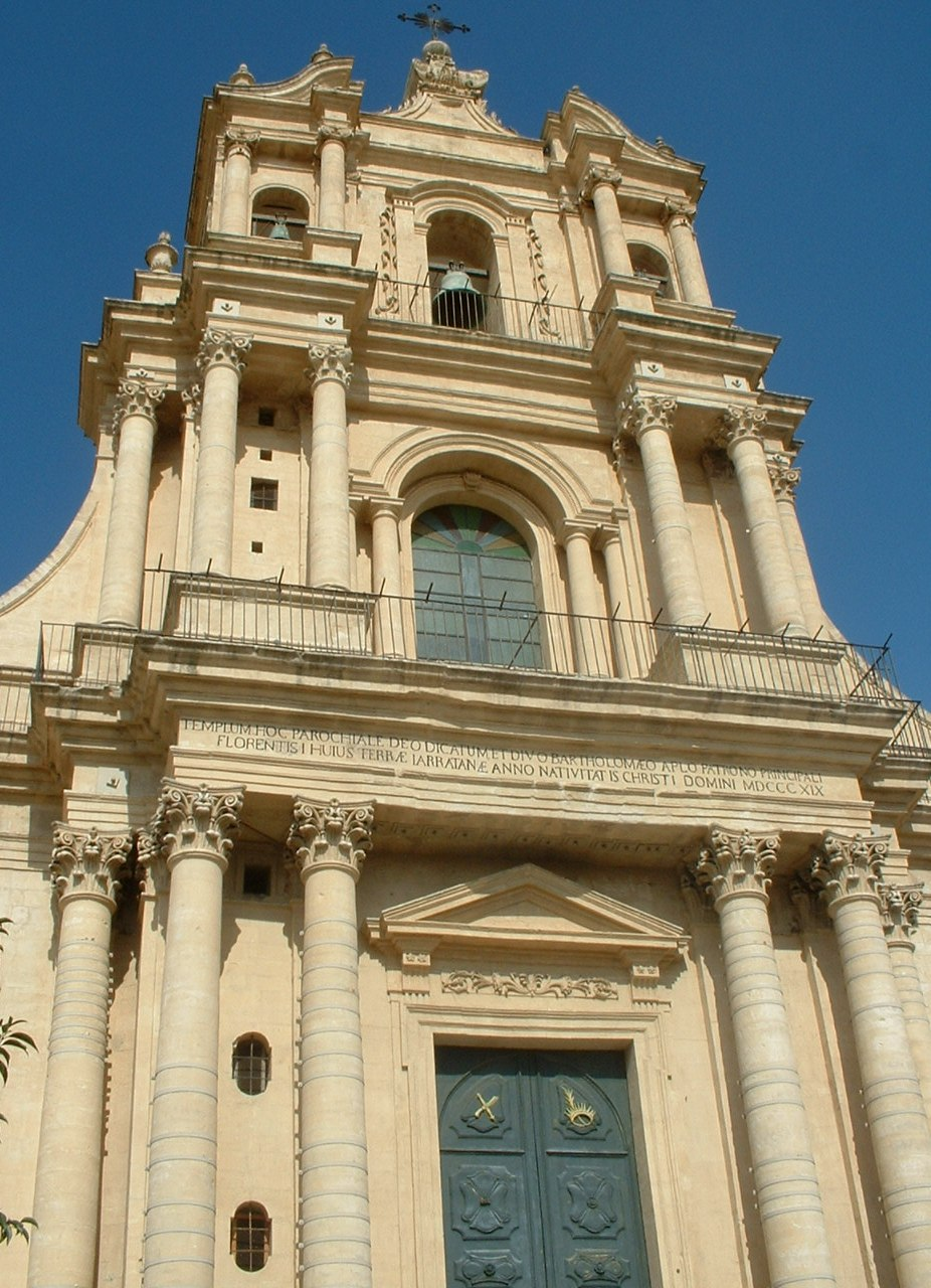 Giarratana, Facade of Saint Bartholomew church).